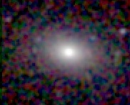 2MASS image of NGC 5114.